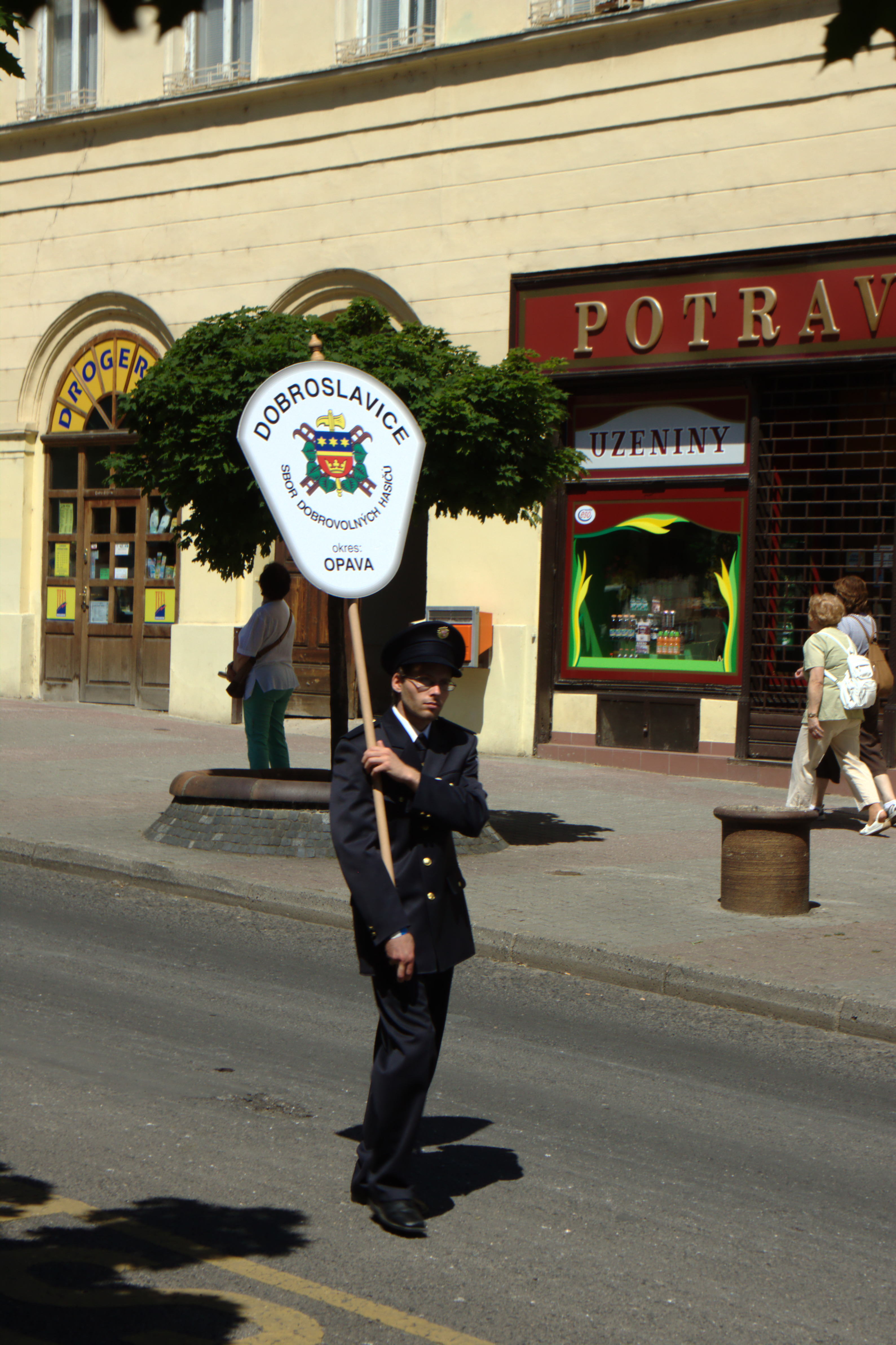 Voluntary firefighters from Dobroslavice during the Hasičské slavnosti Litoměřice 2014 - a annual firefighters presentation, celebration and a march. Litoměřice, Ústí Region, CZ